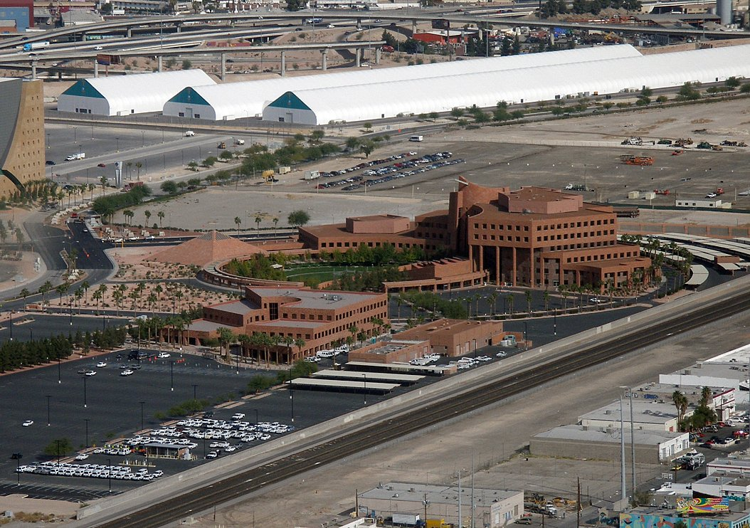 The Clark County Government Center in Las Vegas, as seen from the tower at Stratosphere Las Vegas. Photographed by user Coolcaesar on October 28, 2006.